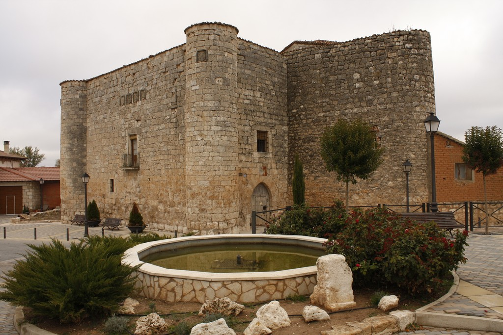 Rojas castle (15th century) in Cavia, Burgos